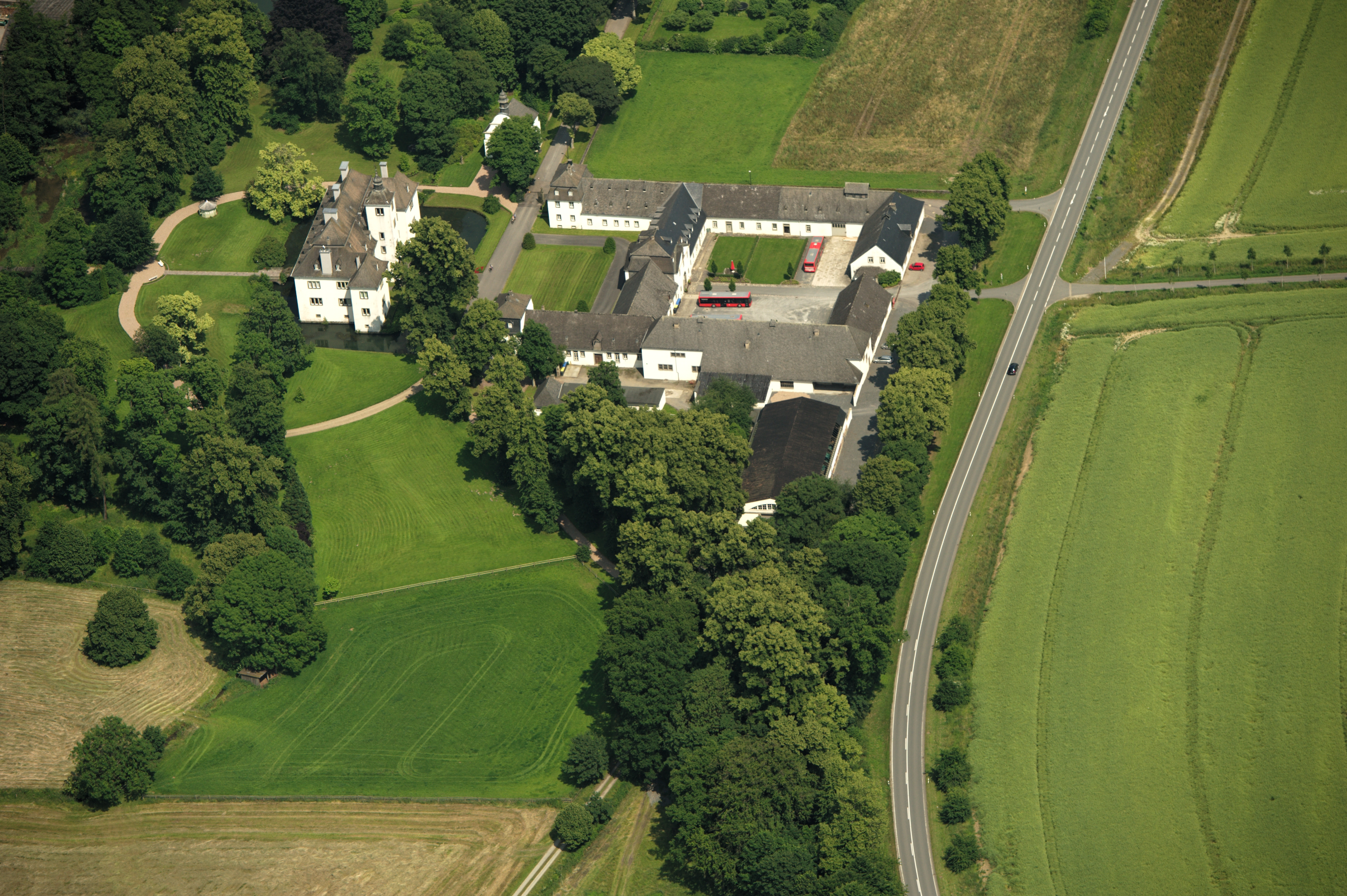 Fotoflug Sauerland-Ost - Schloss Laer The making of this document was supported by the Community-Budget of Wikimedia Germany.